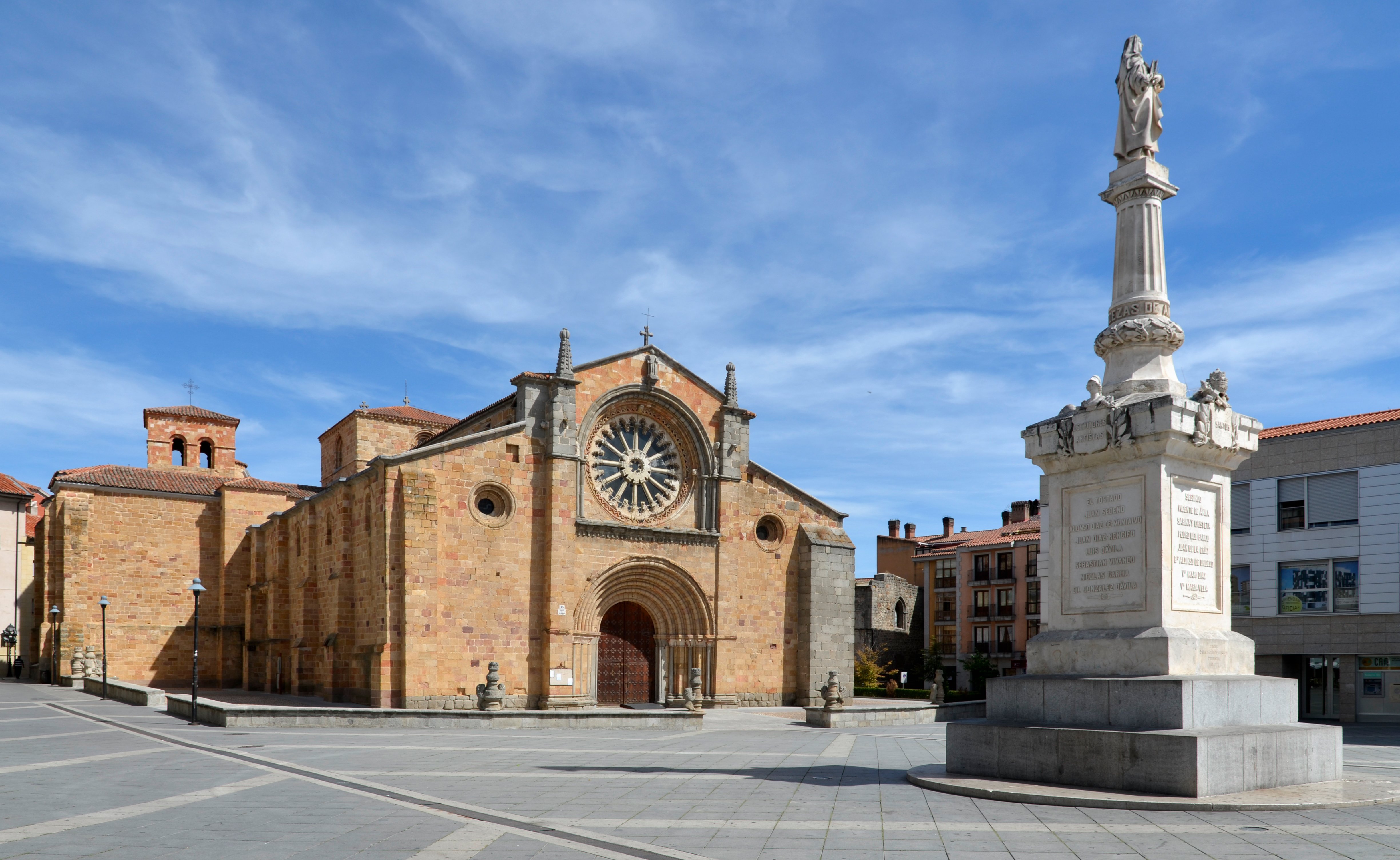 Church of San Pedro - Avila, Spain